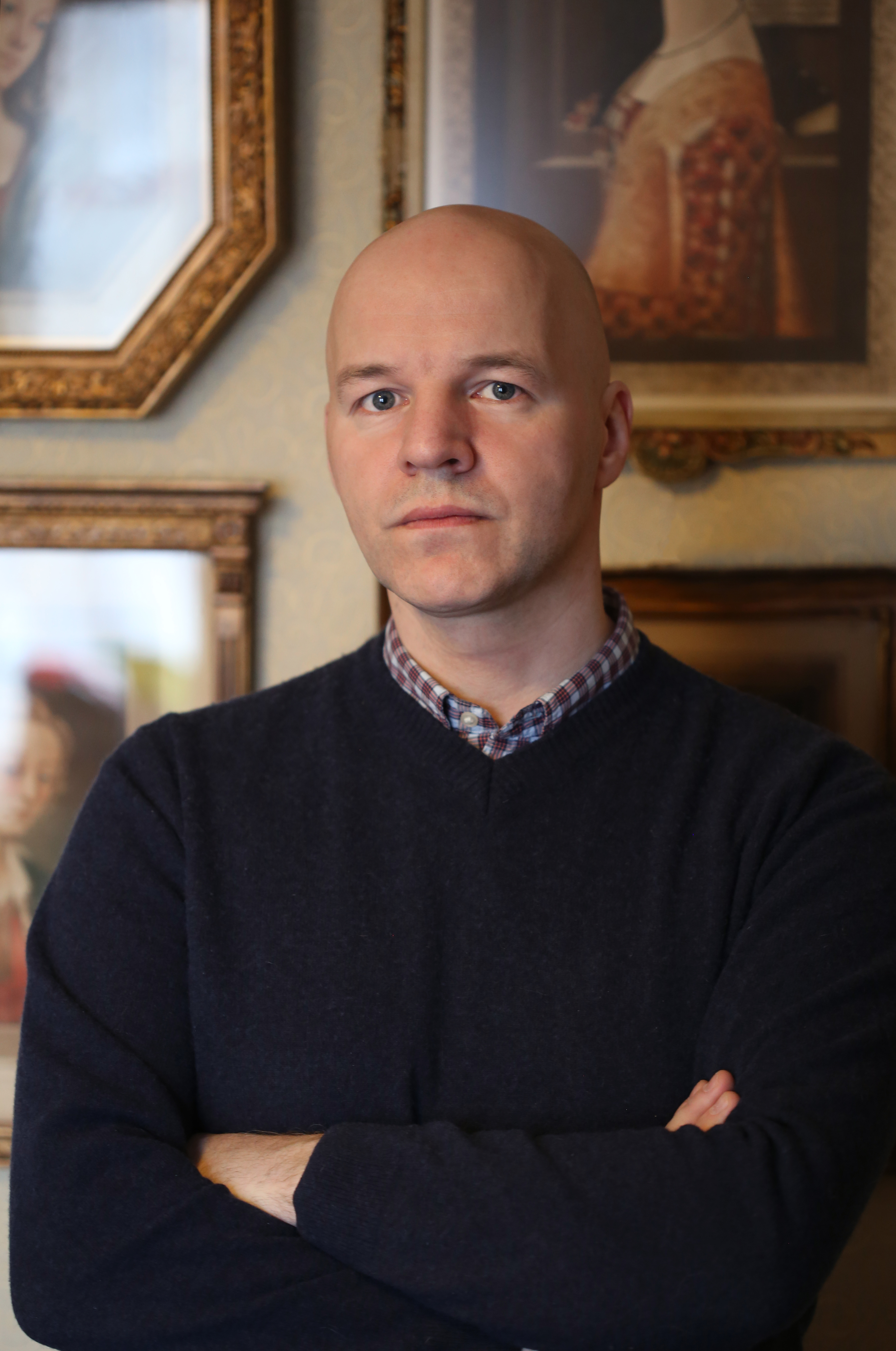 Portrait of Petr Druzhinin